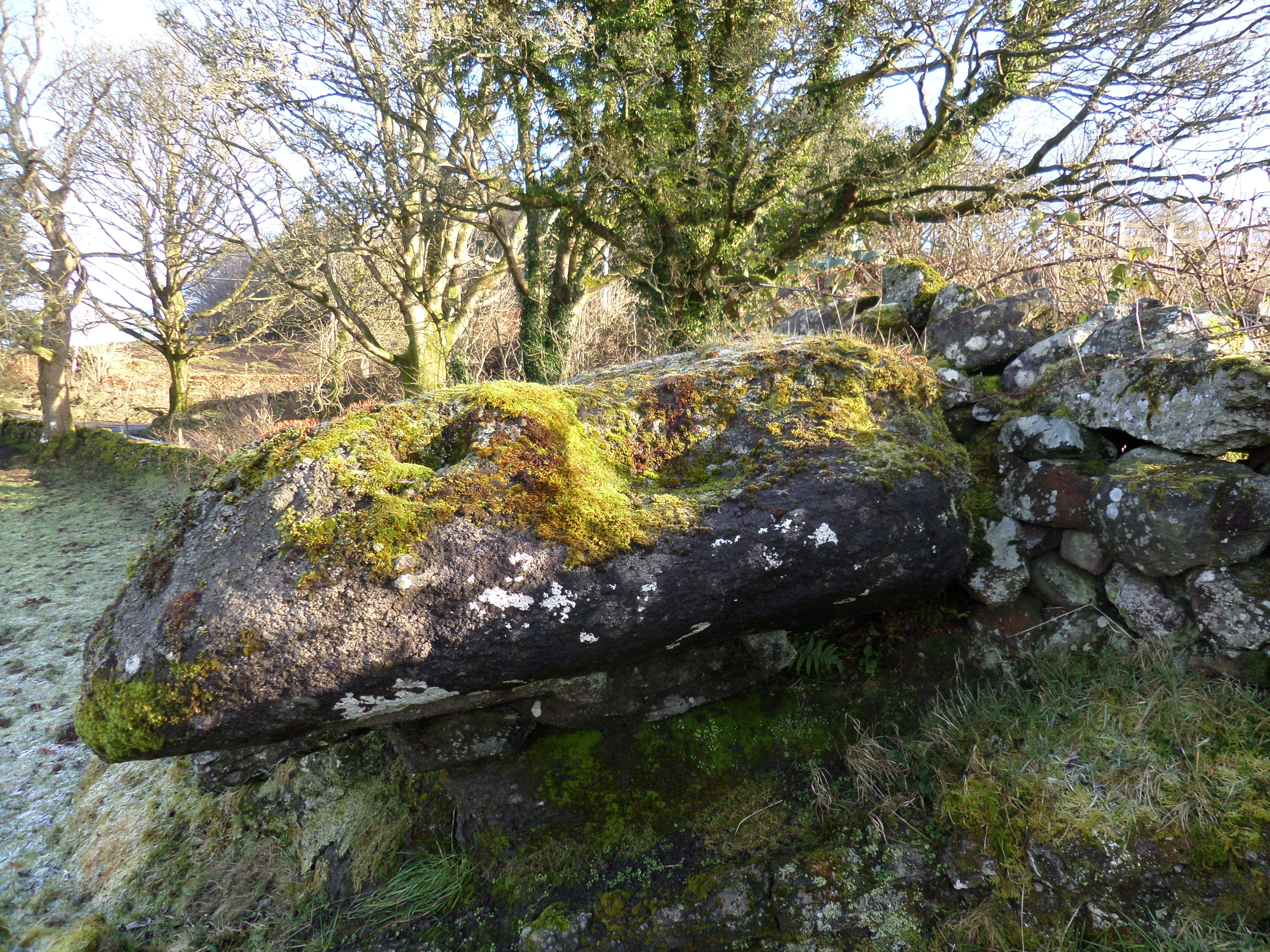 St Fillan's Seat, Kilallan, Renfrewshire. Used by the saint to baptise his converts.